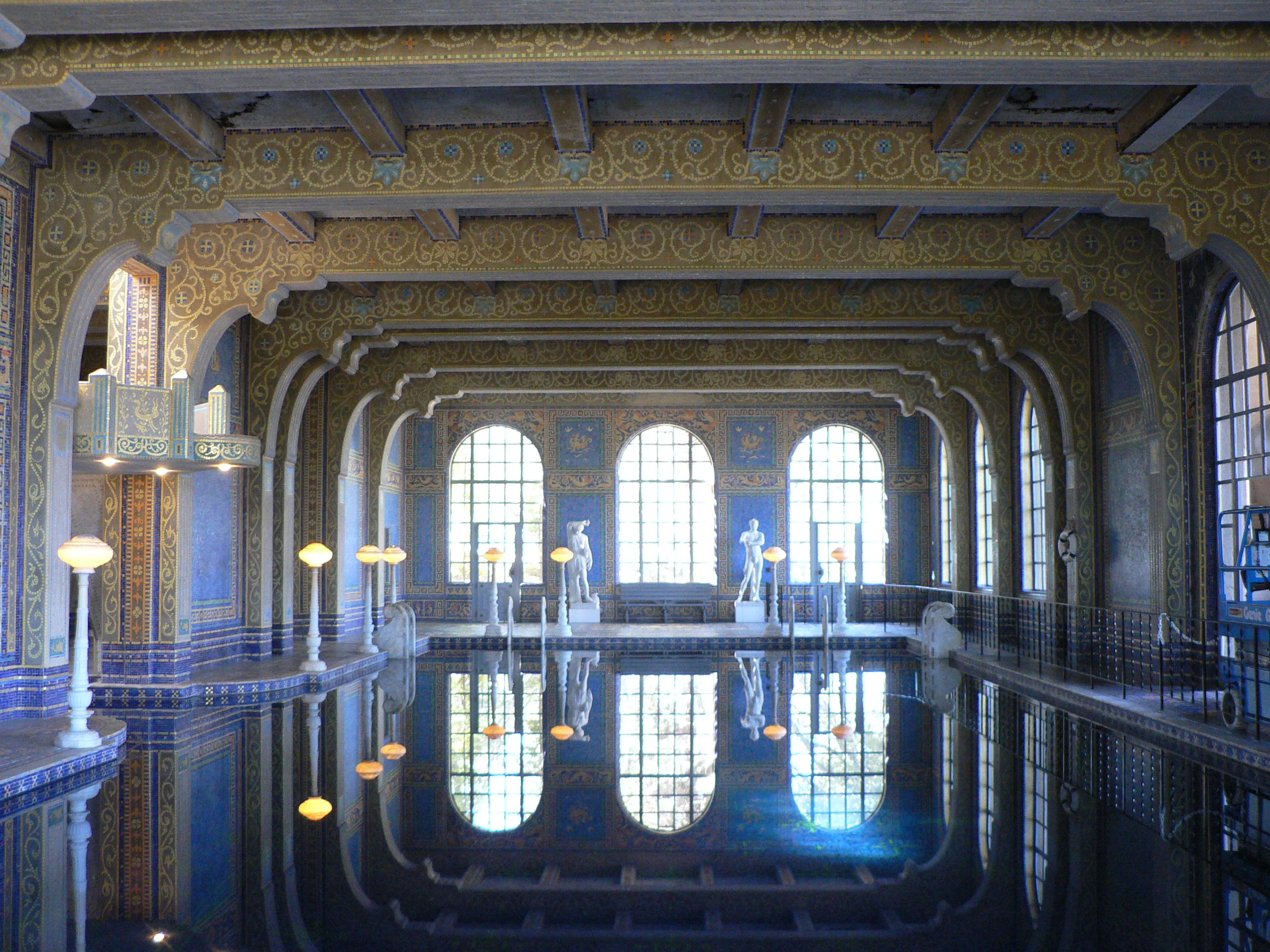 Hearst Castle, indoor pool